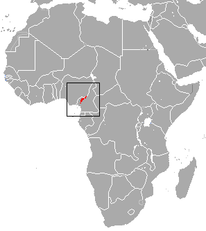 Cameroonian Forest Shrew (Sylvisorex camerunensis) range